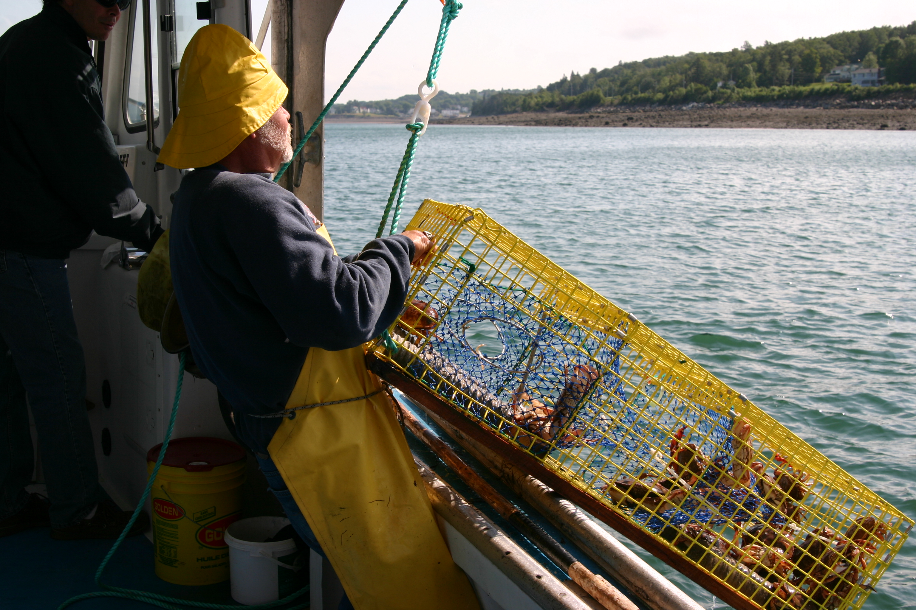 Catching crabs, Digby, Nova Scotia, Canada